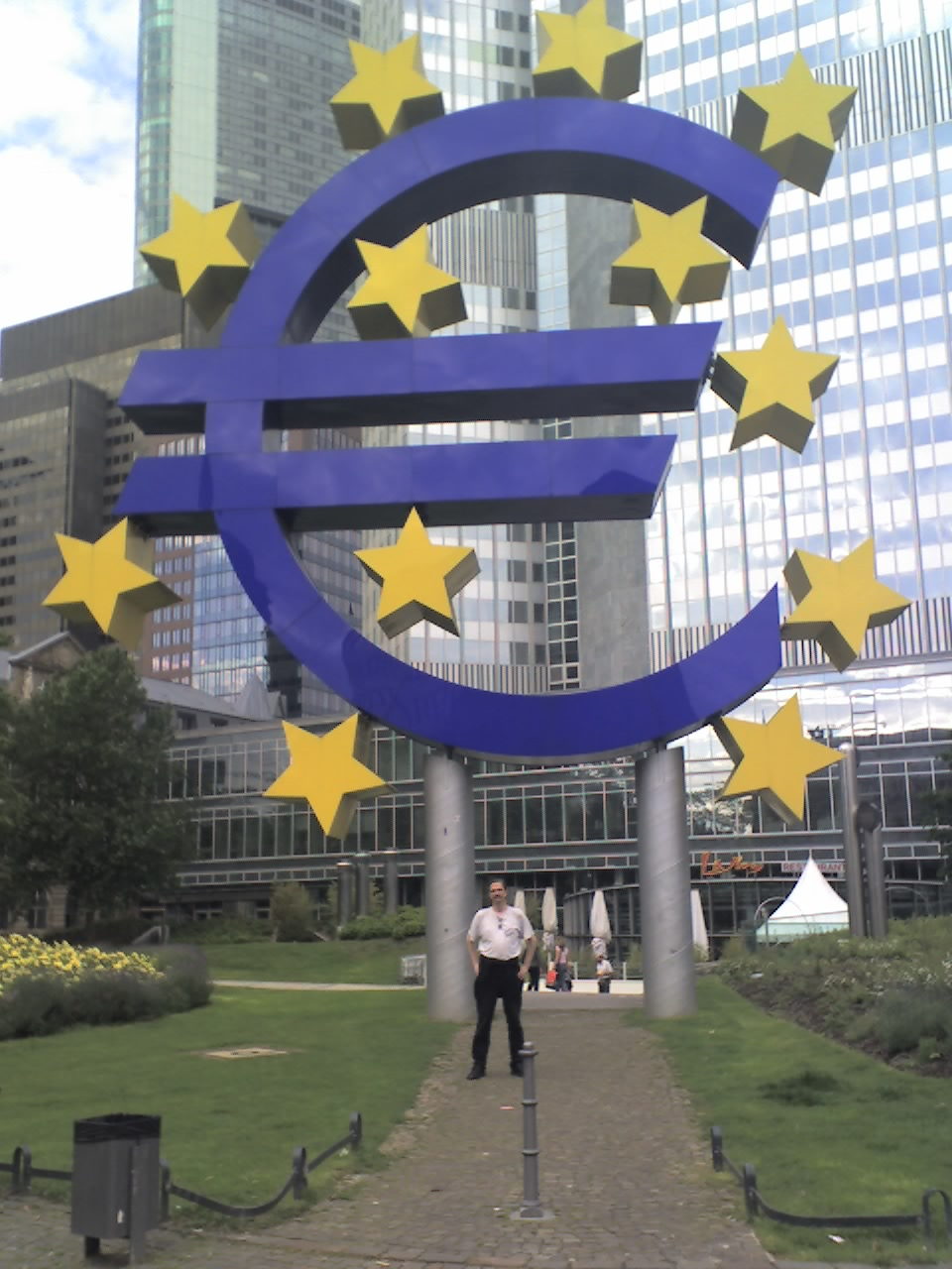 The symbol of the Euro in front of the European Central Bank in Frankfurt. Ottmar Hörl Date of birth1950Location of birthNauheimAuthority control VIAF: 64812977 LCCN: n88189664 GND: 119244209 ISNI: 0000 0000 9247 2953 WorldCat WP-Person